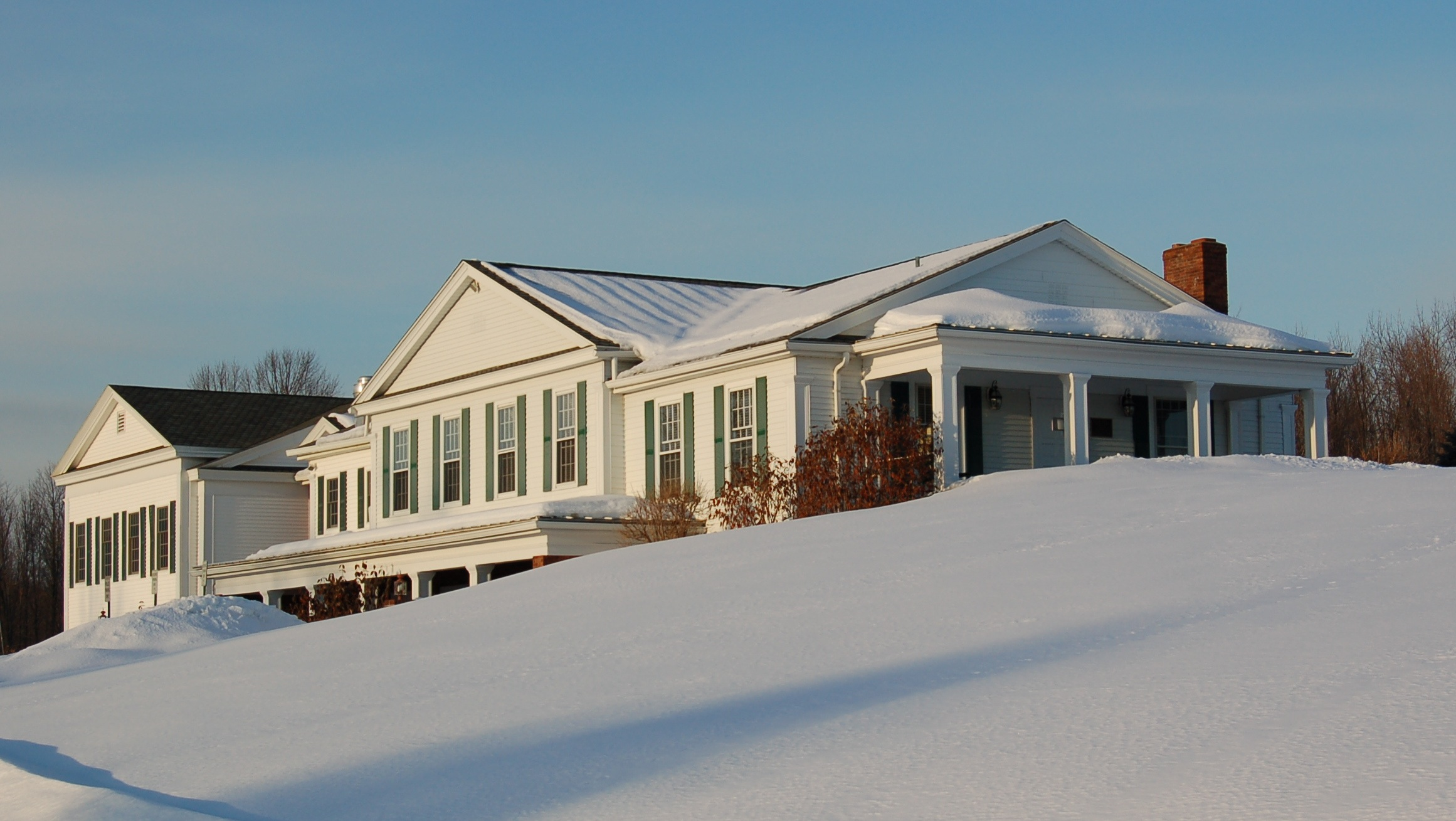 Exterior view of Wilcox Memorial (Town of Milan, NY) Town Hall.